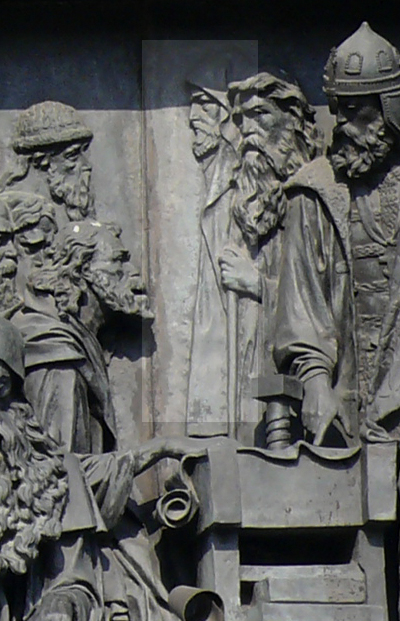 Bishop Varsonofy on the Monument "Millennuim of Russia" in Veliky Novgorod